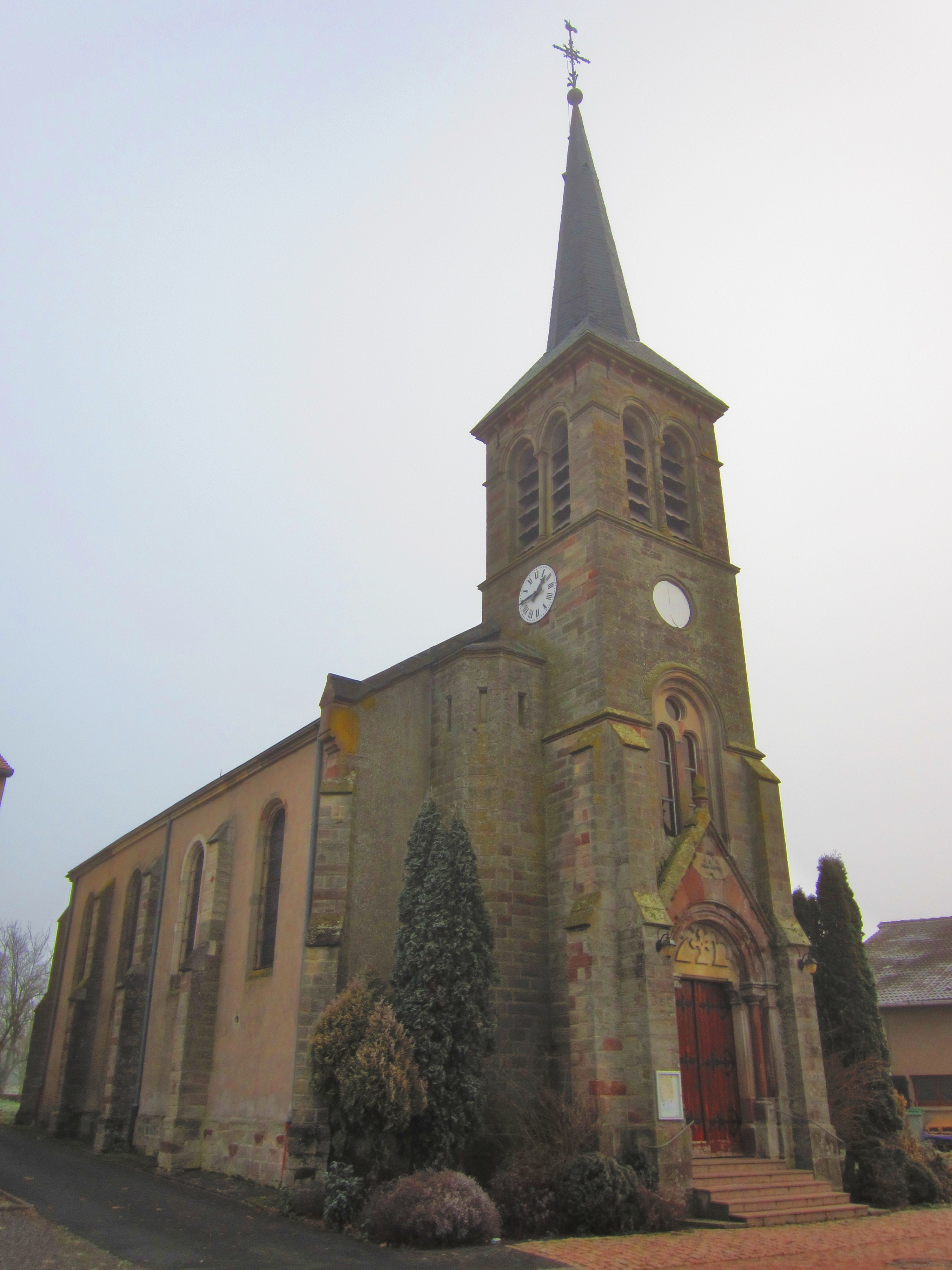 Lindre Basse church